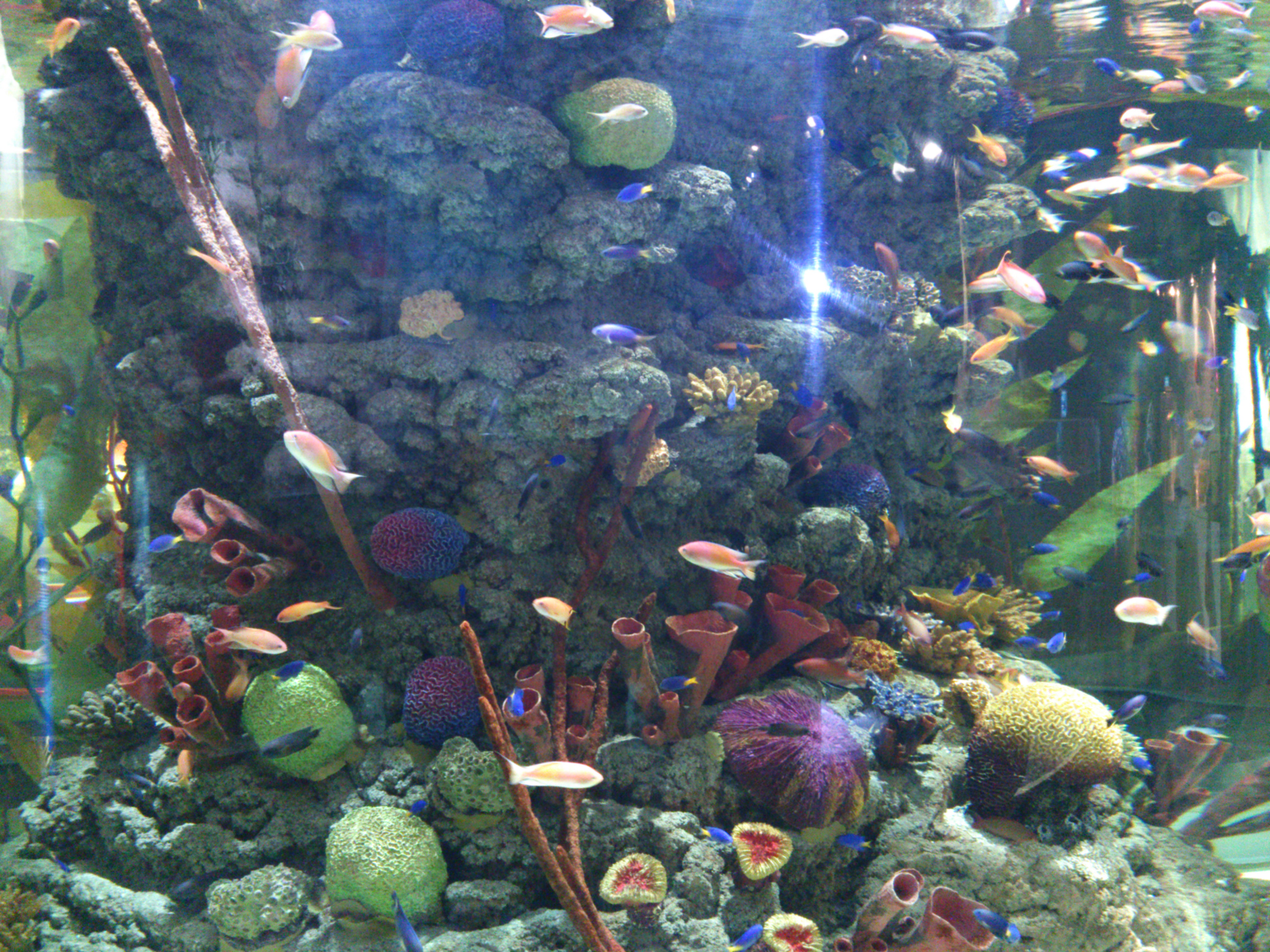 Coral and other living organisms serve as habitats for many marine species.